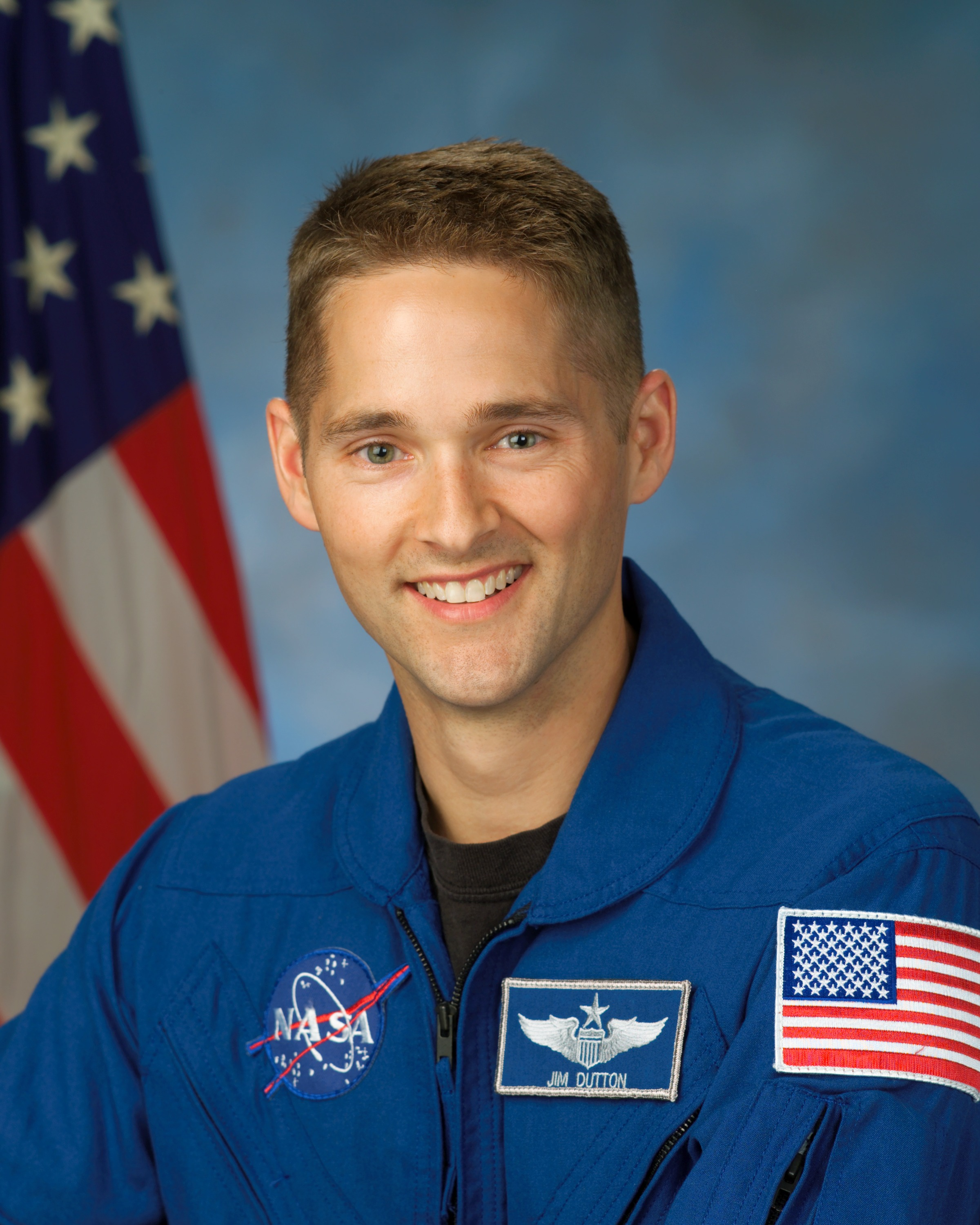 James P. (Jim) Dutton, Jr., pilot in NASA's 2004 class of astronauts.